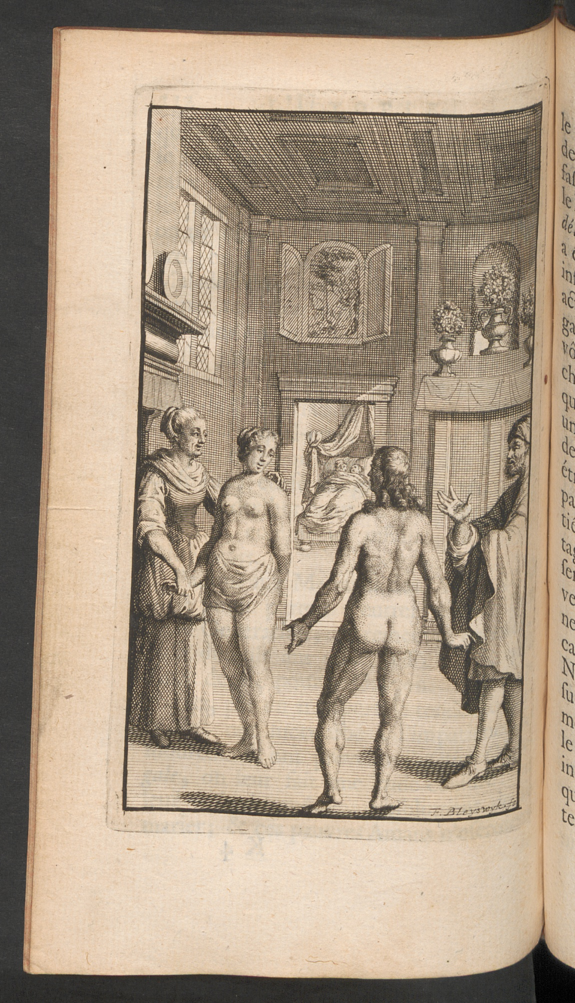 Engraving by François van Bleyswik for Th. More's Utopia translated in french by N. Gueudeville in 1715 (ETH-Bibliothek Zürich). This engraving (page 224) represents the utopian ritual by which lovers are introduced before their wedding.